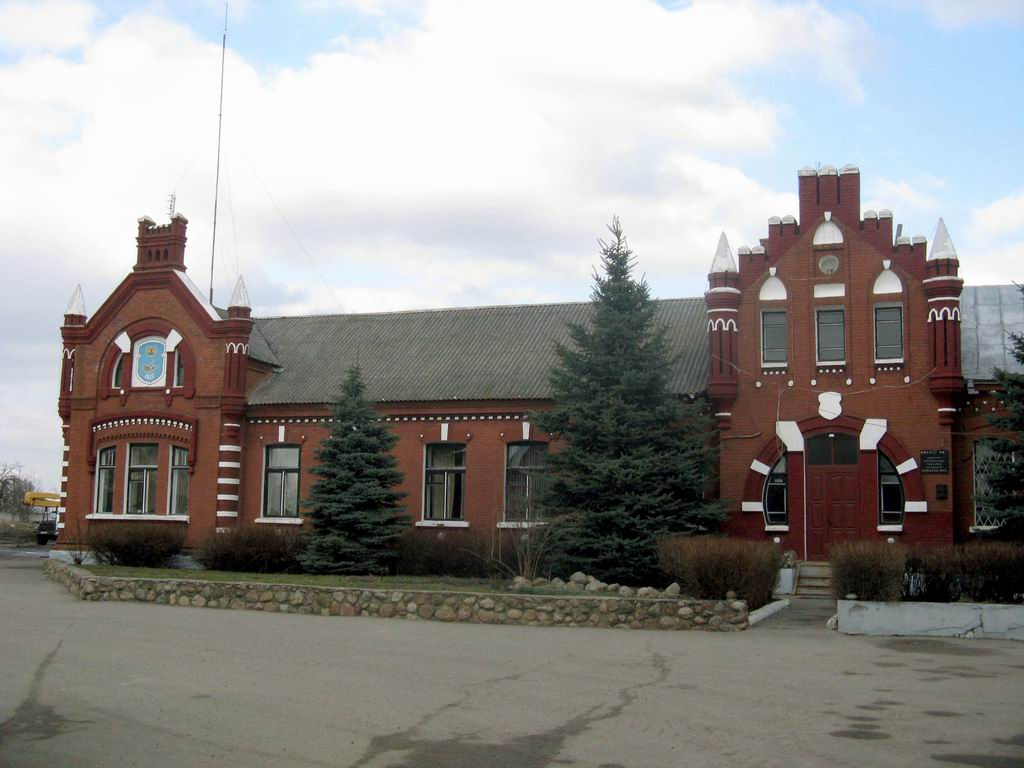 A public company. The emblem can be seen on the front.